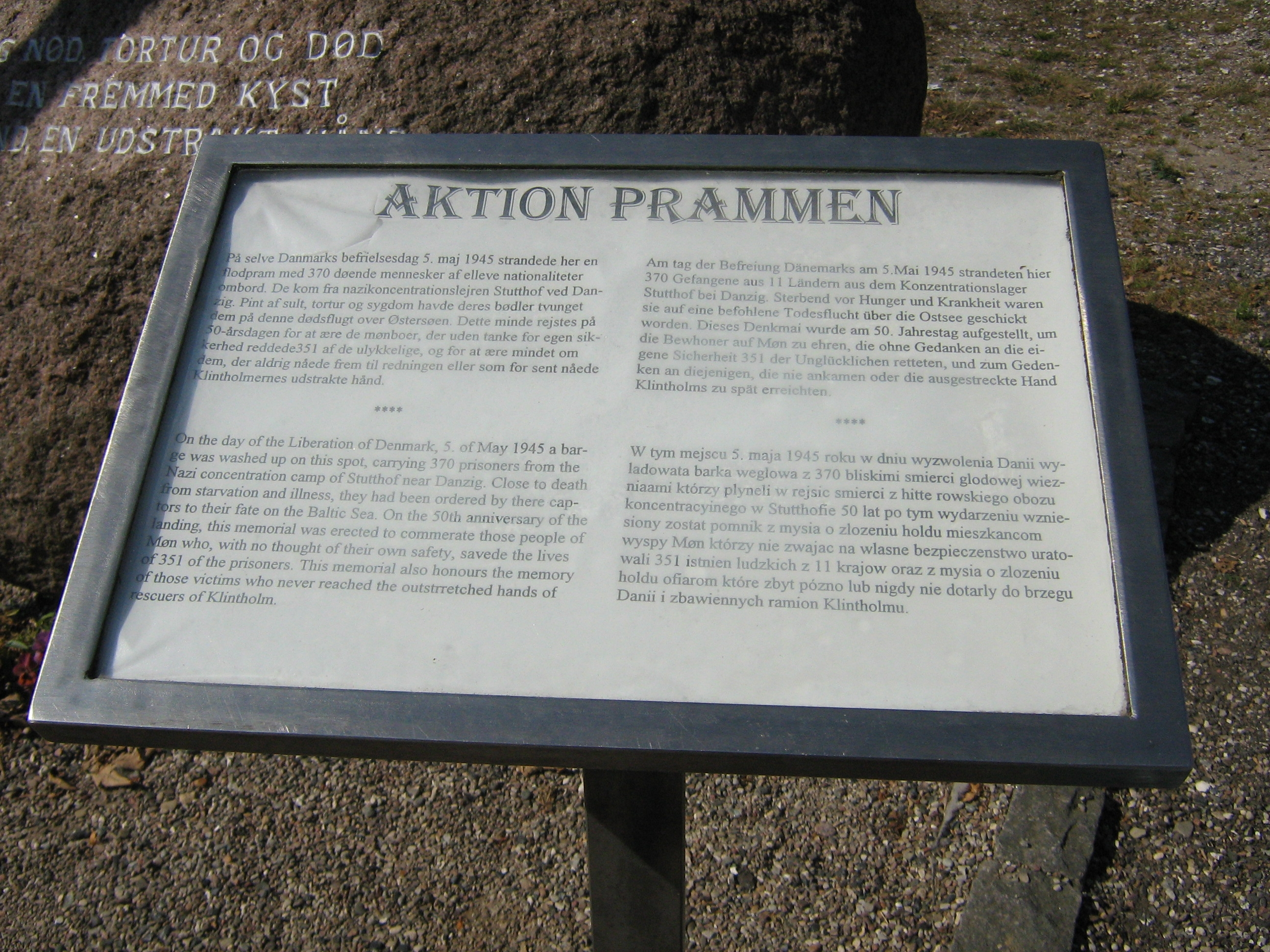 Board describing the rescue of Stutthof victims in Klinthom Havn, Denmark, on 5 May 1945.